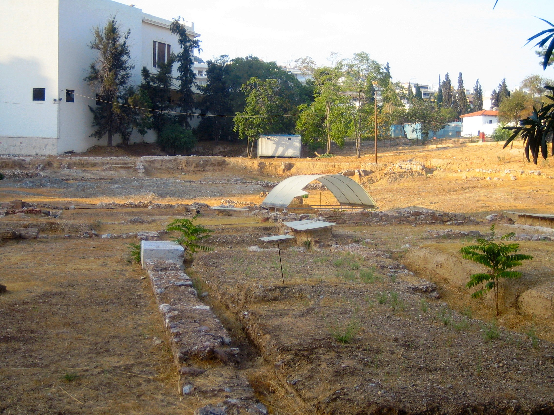 Aristotle's Lyceum gymnasium, archaeological site in Rigillis Street, Athens.